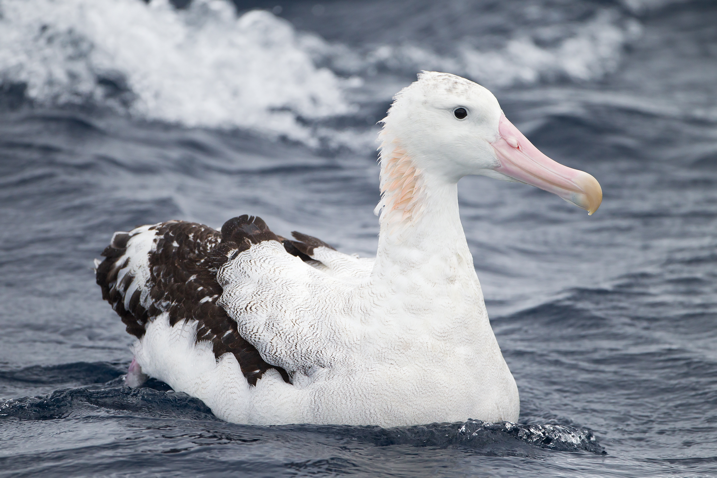 Wandering Albatross (Diomedea exulans), East of the Tasman Peninsula, Tasmania, Australia